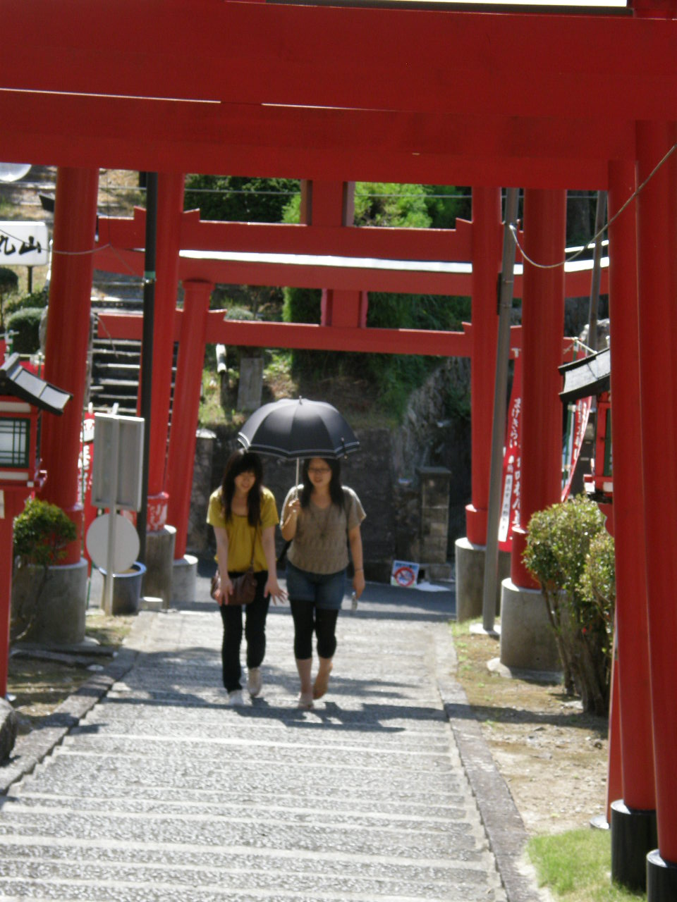 sasayama,oujiyama-inarijinja